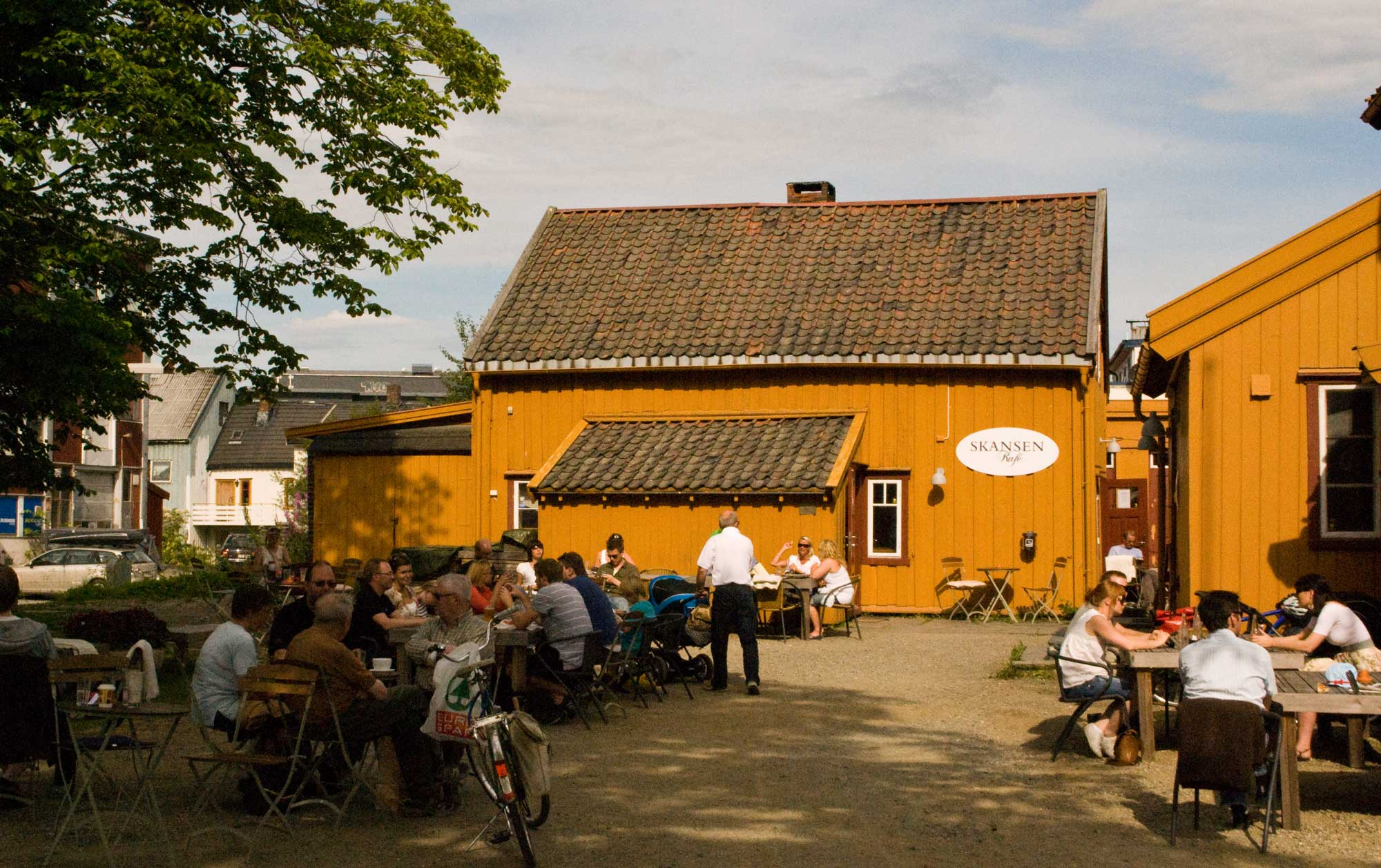 Skansen, the oldest house in Tromsø, is a lively café in the summer.